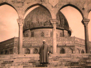 Mohamed_Fadhel_Ben_Achour_in_Jerusalem